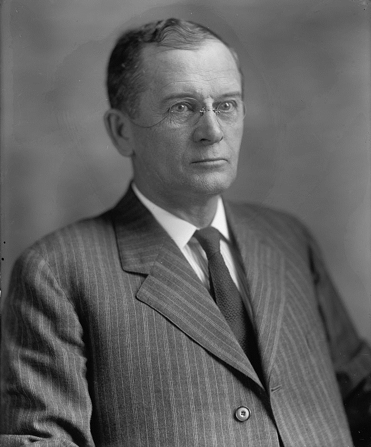 Edwin D. Ricketts, congressman from Logan, Ohio.